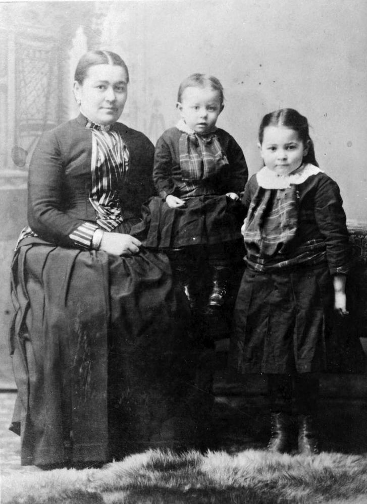 Mrs. Charles F. Morison and her children (Item G-05588)